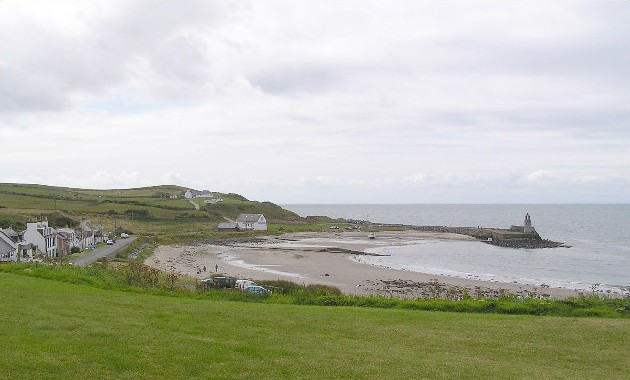 Port Logan. Picture taken from the Butterchurn Tea Room on a dull day.